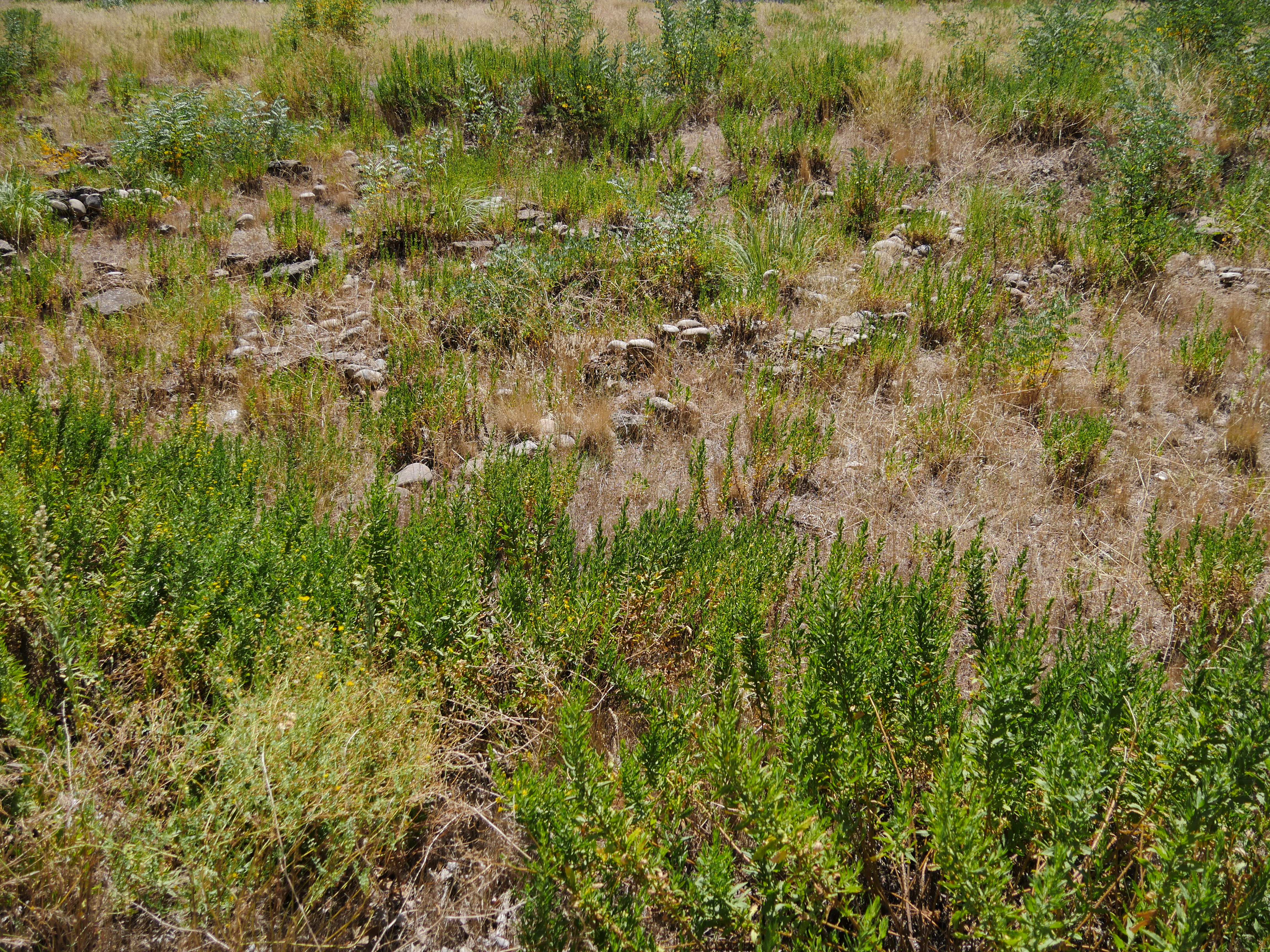 State of conservation of the Roman Ruins of Vareia in Varea, Logroño, La Rioja, Spain in 2017.